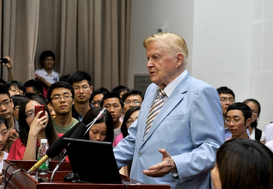 Robert Mundell at SWUFE in 2013